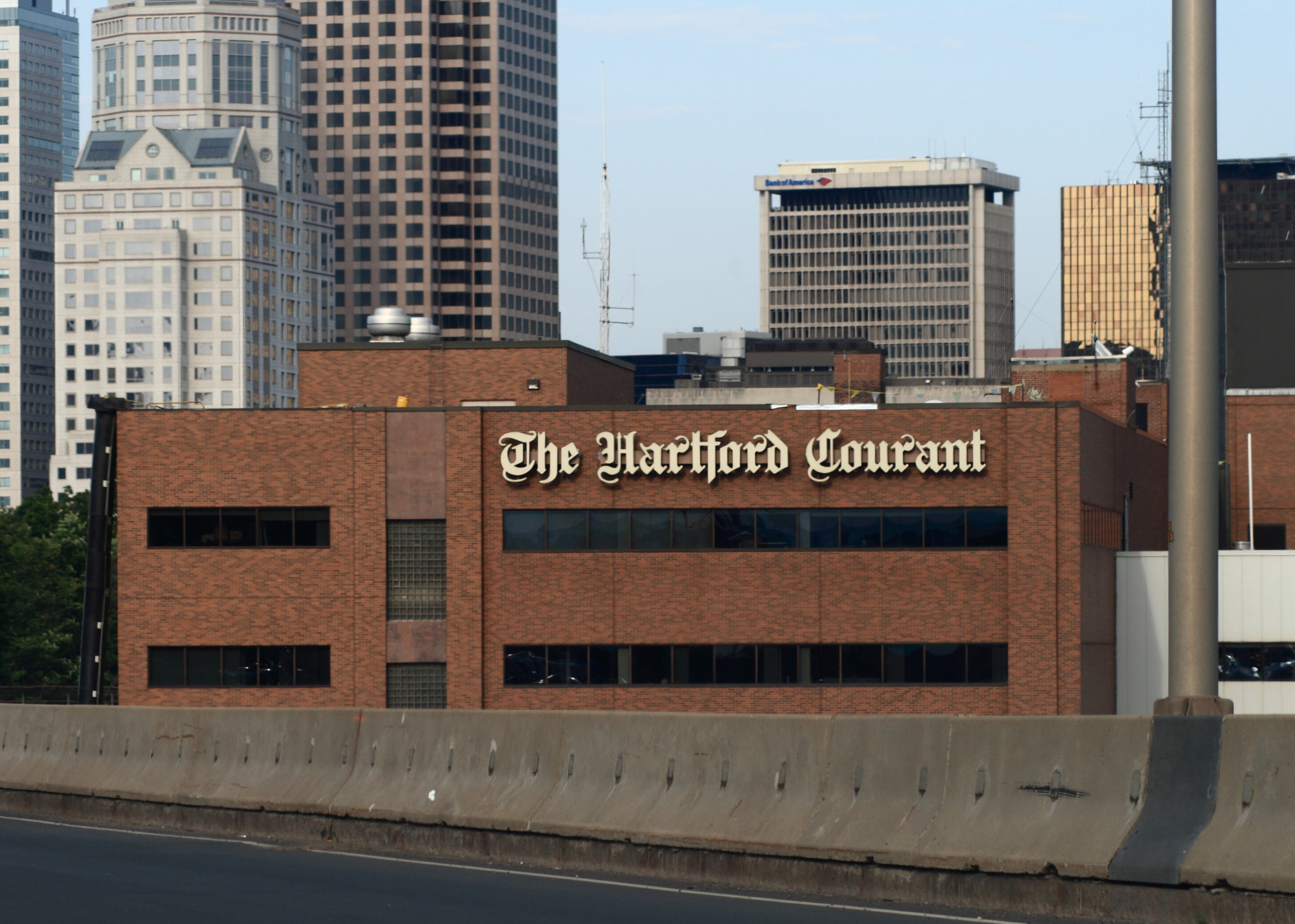 The Hartford Courant building in downtown Hartford, seen from I-84 East.